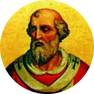 Portait of Pope Stephen II in the Basilica of Saint Paul Outside the Walls, Rome